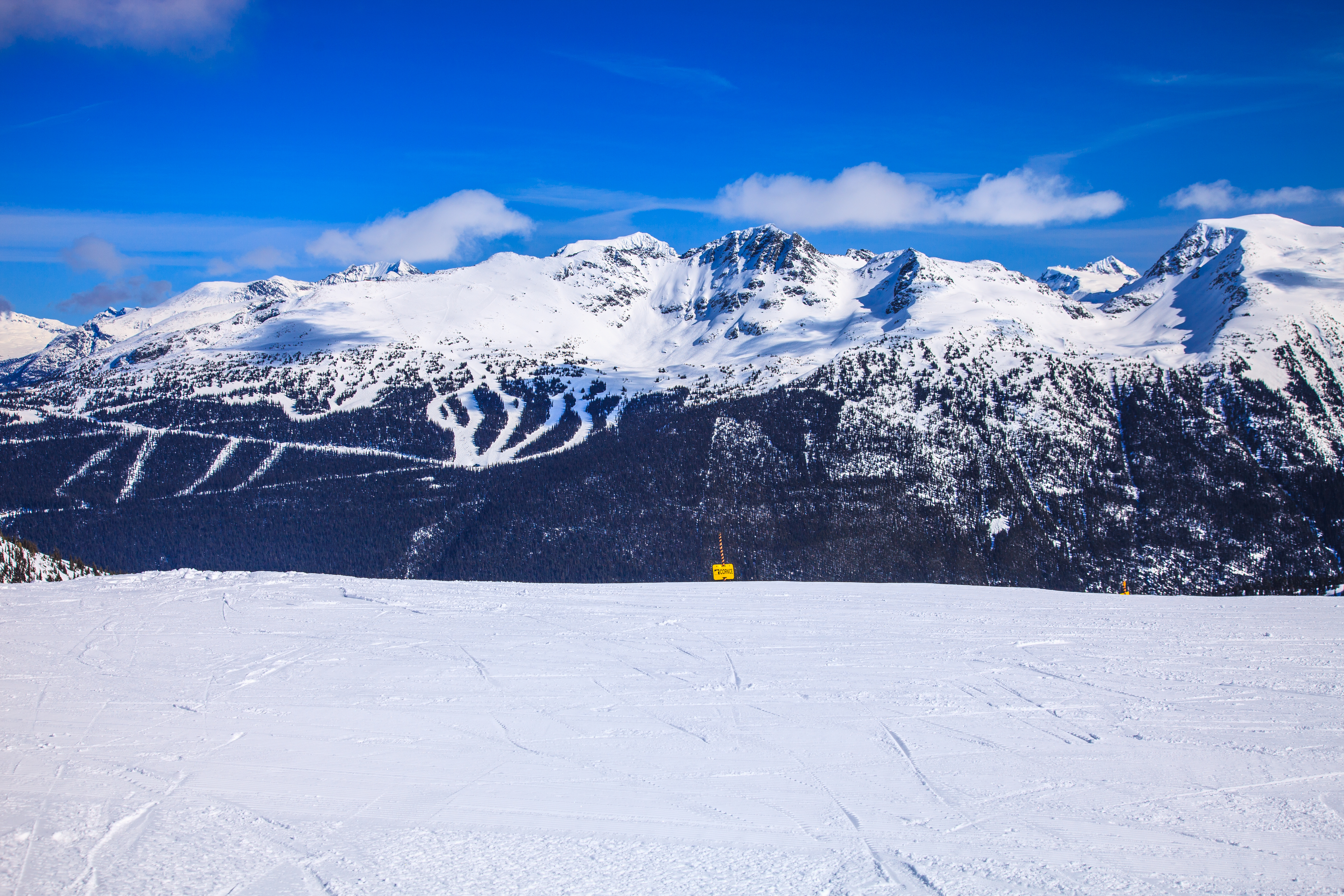 Upper portion of Blackcomb from Whistler